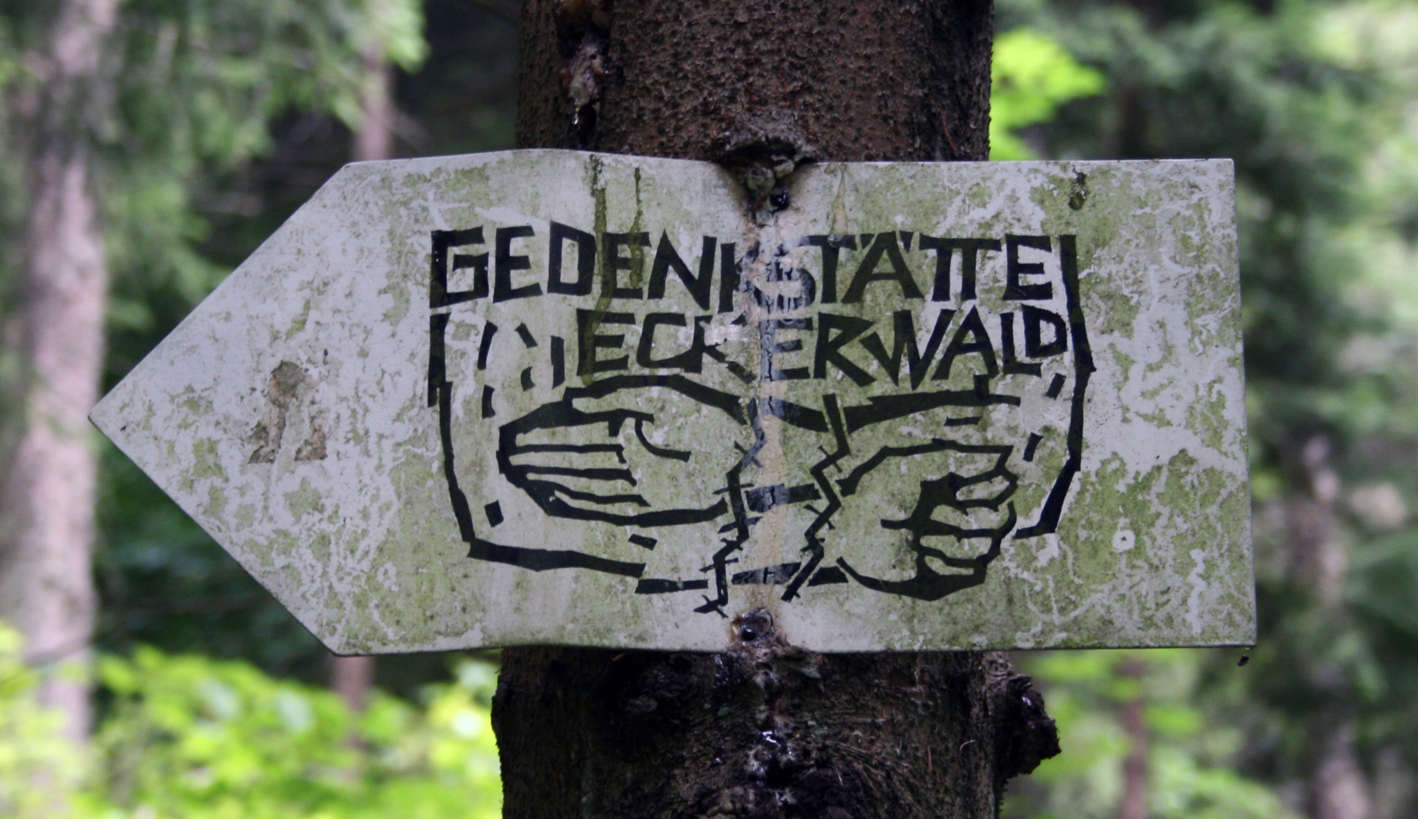 Tag on the memorial place Eckerwald